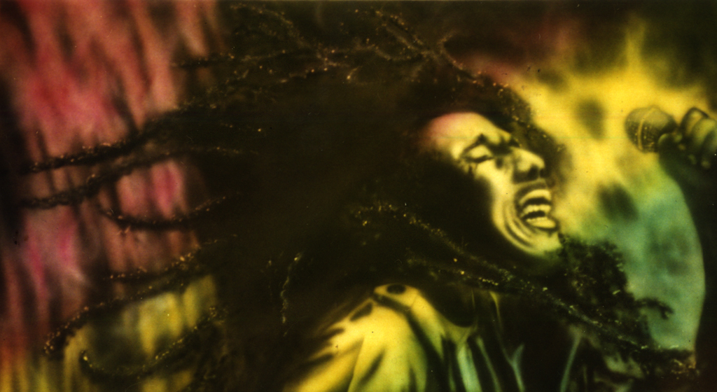 "Bob Marley Live" 8 x 8 Airbrushed acrylic / Mixed Media. - Steve Brogdon (frog) 1994